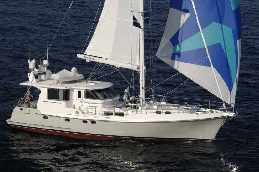 A 56 ft. Nordhavn Motorsailer under sail